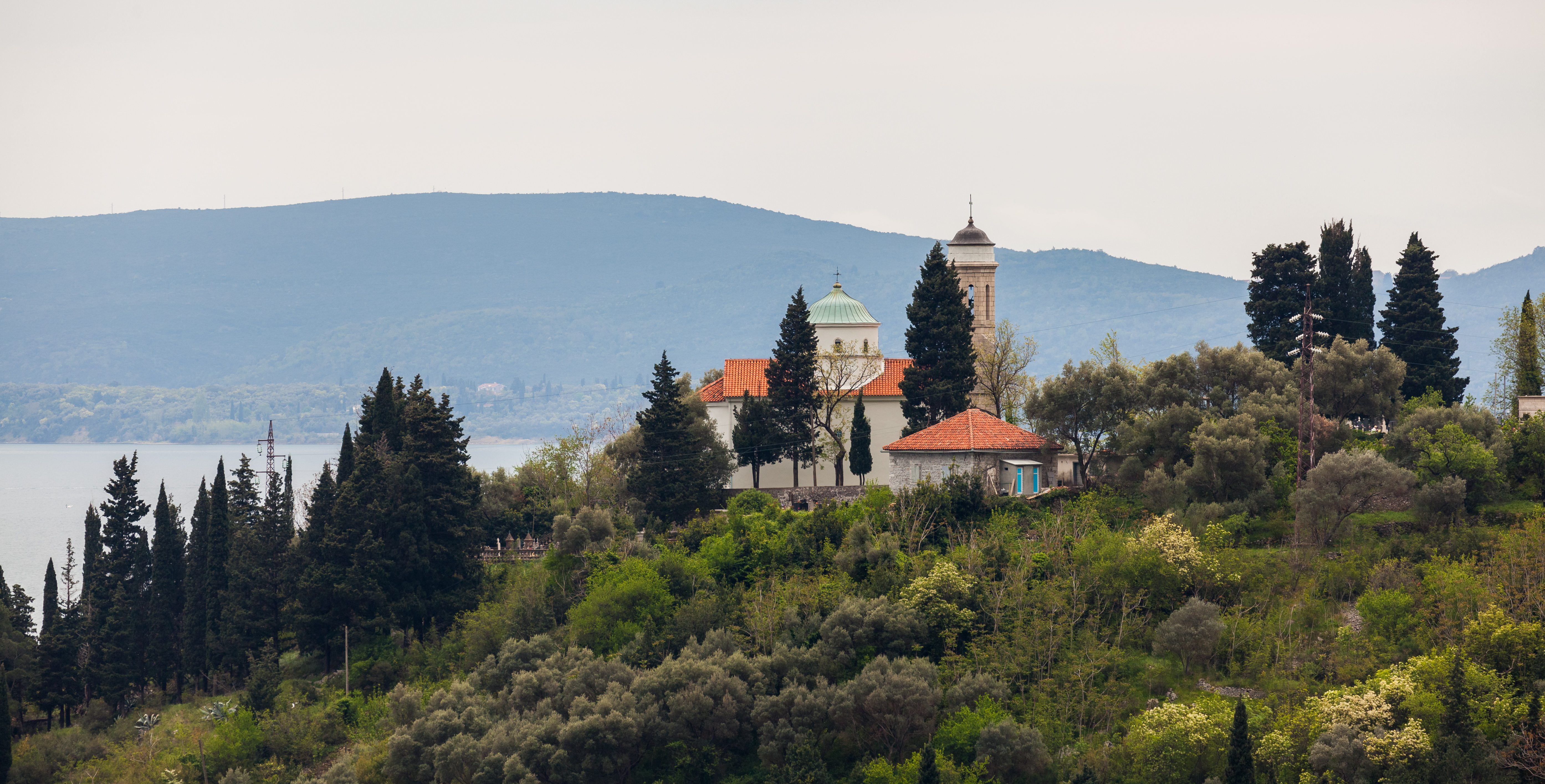 Lepetane, Bay of Kotor, Montenegro